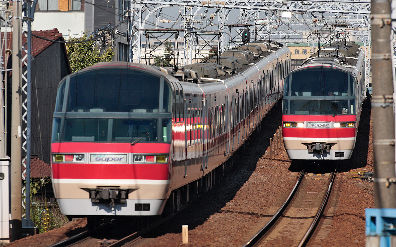 Meitetsu 1000 Series EMUs, Horita Sta. - Yobitsugi Sta.